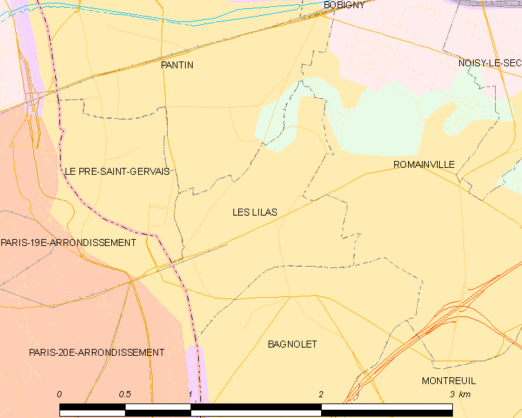 Map of French municipality Les Lilas